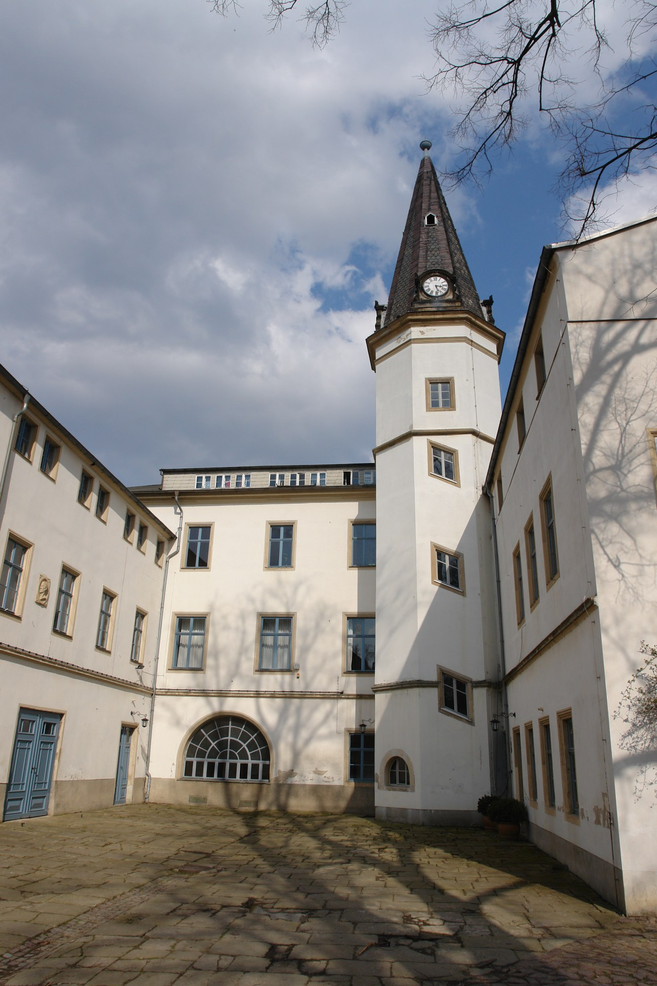 Inner courtyard of Nöthnitz Palace in Bannewitz, near Dresden